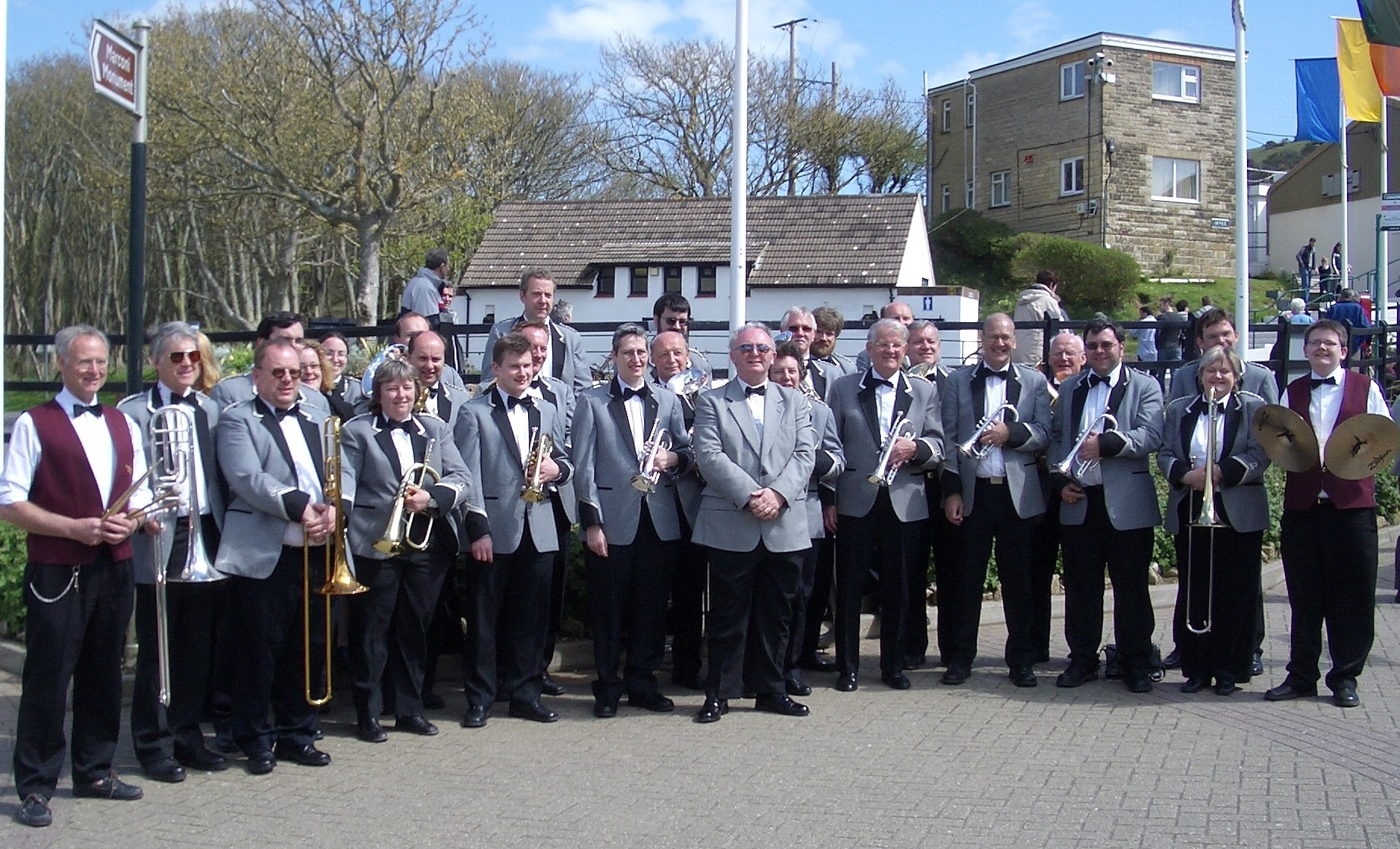 Picture of the City of Southampton (Albion) Band taken by a member during their tour of the Isle of Wight in 2006.